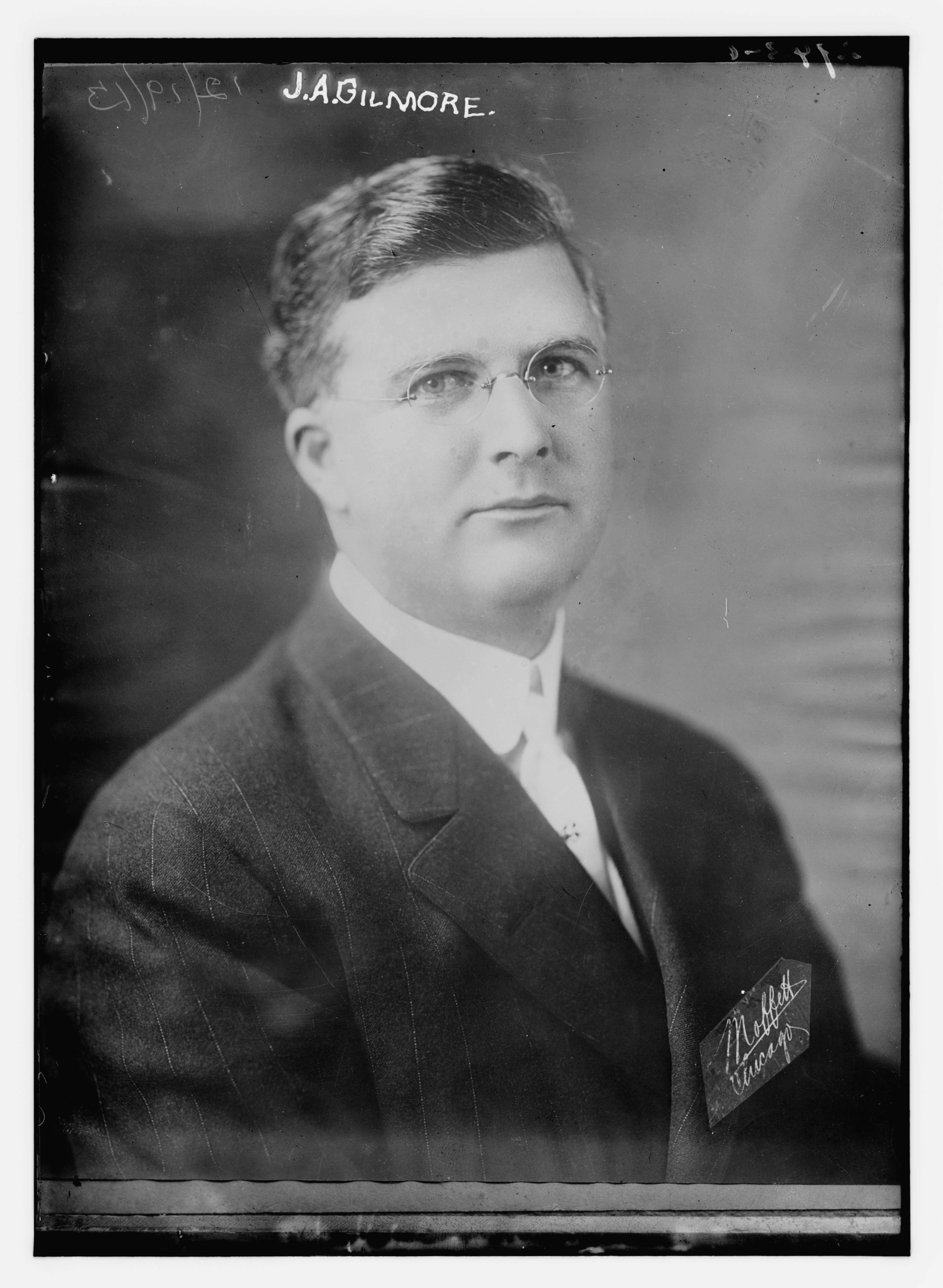 Bain News Service,, publisher. James A. Gilmore, President, Federal League (baseball) [1914] 1 negative : glass ; 5 x 7 in. or smaller. Notes: Original data provided by the Bain News Service on the negatives or caption cards: J.A. Gilmore. Corrected title and date based on research by the Pictorial History Committee, Society for American Baseball Research, 2006. Forms part of: George Grantham Bain Collection (Library of Congress). Format: Glass negatives. Repository: Library of Congress, Prints and Photographs Division, Washington, D.C. 20540 USA, General information about the Bain Collection is available at Persistent URL: Call Number: LC-B2- 2943-6